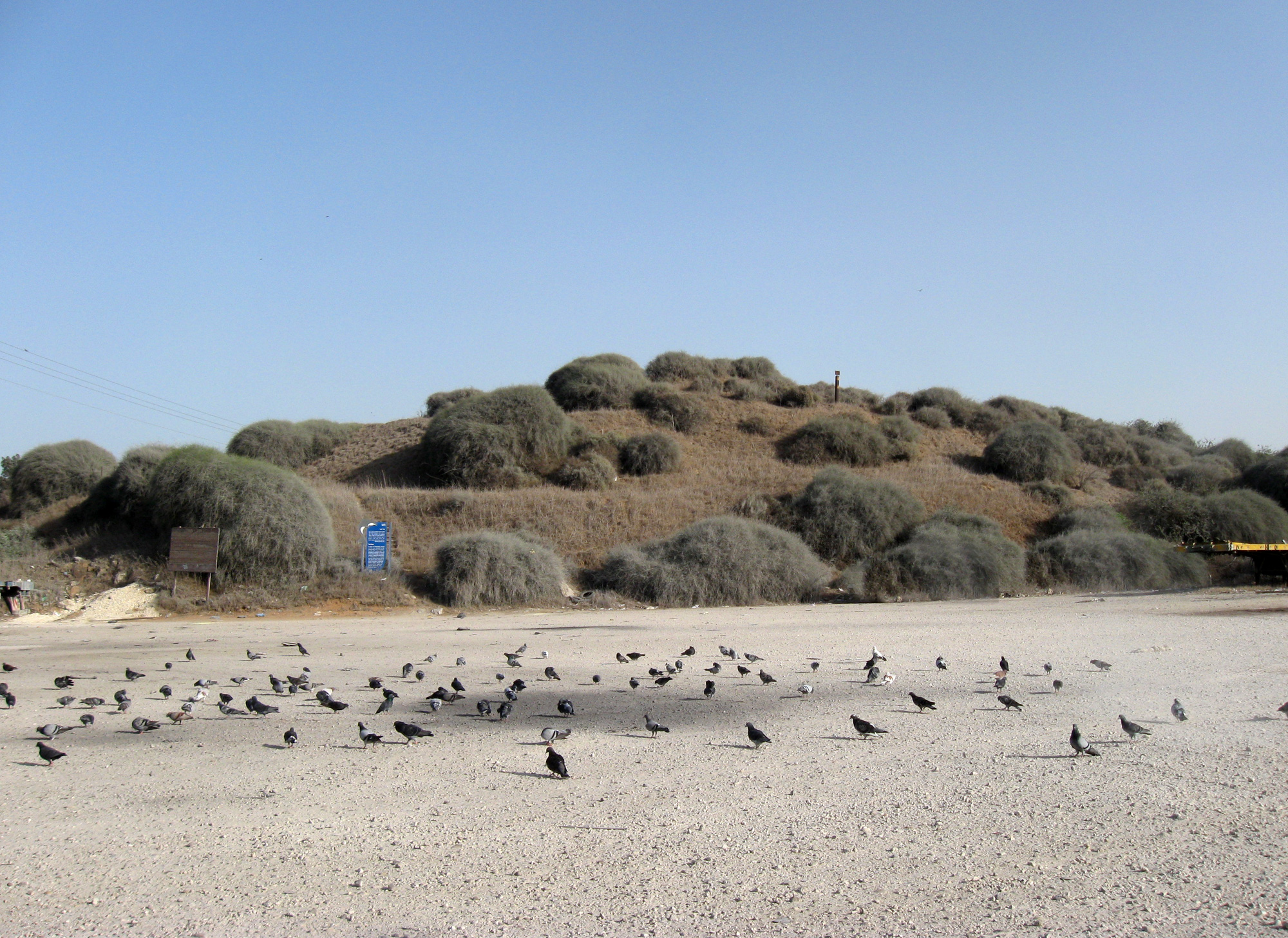 tel mor in ashdod